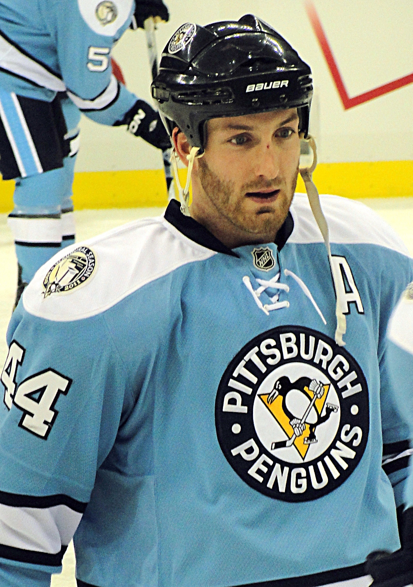 Pittsburgh Penguins defenseman Brooks Orpik during a January 8, 2011 game against the Minnesota Wild at Consol Energy Center in Pittsburgh, PA.